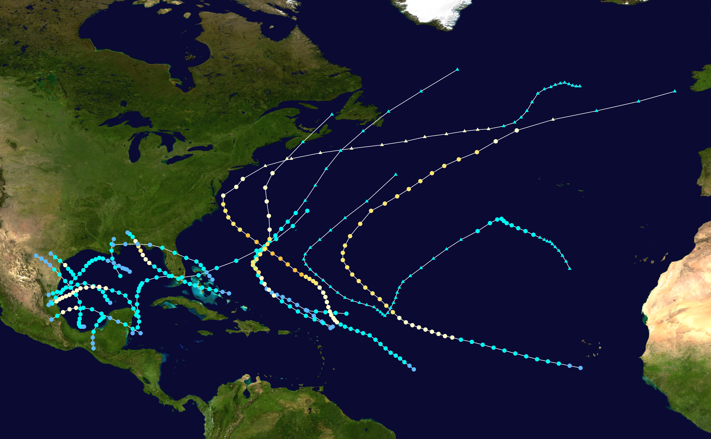 Track map of all storms of the 1936 Atlantic hurricane season. The points show the location of the storm at 6-hour intervals. The colour represents the storm's maximum sustained wind speeds as classified in the Saffir–Simpson hurricane wind scale (see below), and the shape of the data points represent the nature of the storm, according to the legend below. Saffir–Simpson hurricane wind scale Tropical depression≤38 mph≤62 km/h Category 3111–129 mph178–208 km/h Tropical storm39–73 mph63–118 km/h Category 4130–156 mph209–251 km/h Category 174–95 mph119–153 km/h Category 5≥157 mph≥252 km/h Category 296–110 mph154–177 km/h Unknown Storm typeTropical cycloneSubtropical cycloneExtratropical cyclone / Remnant low / Tropical disturbance